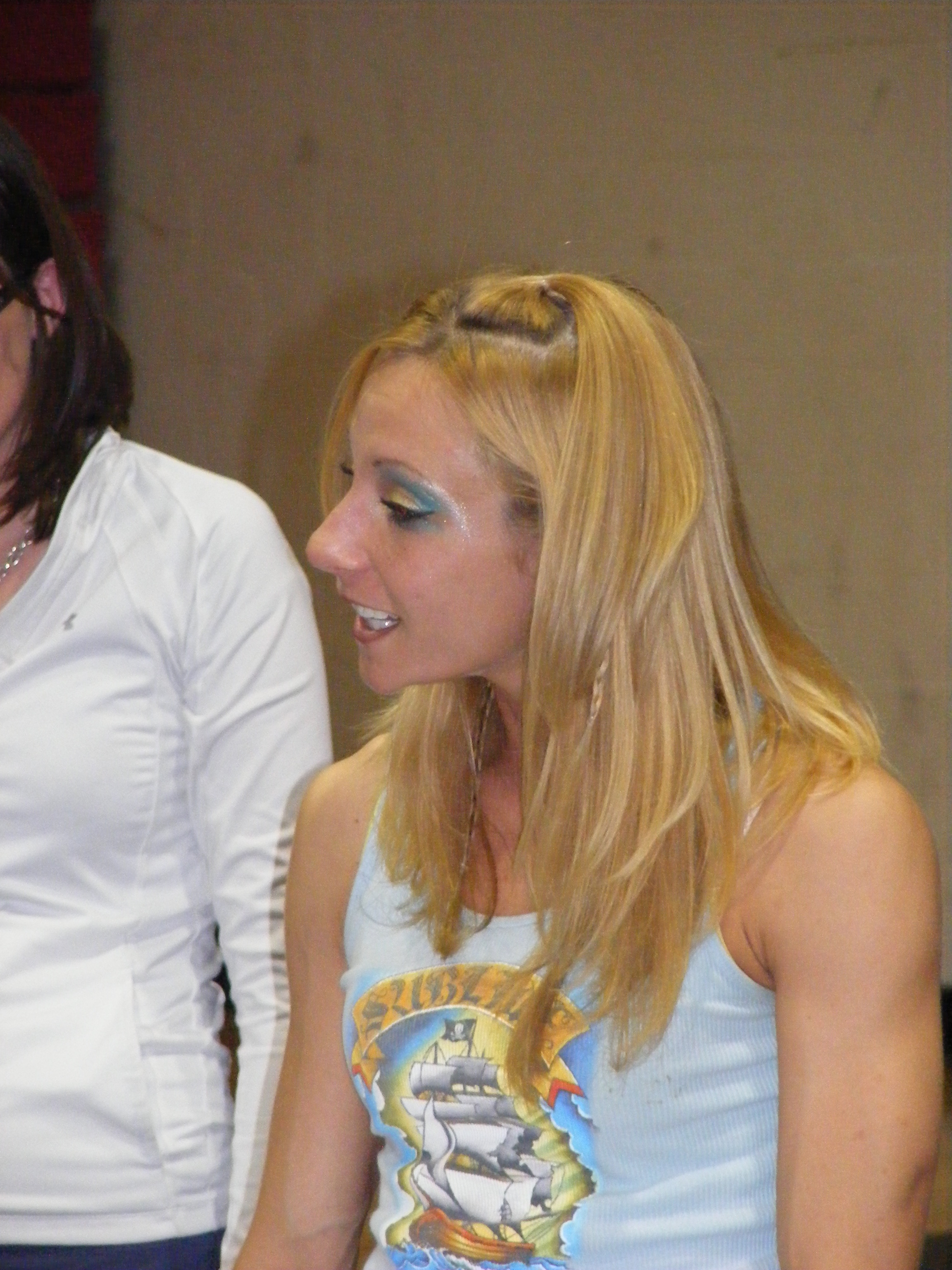 Professional wrestler Daizee Haze at an APW show in May 2009